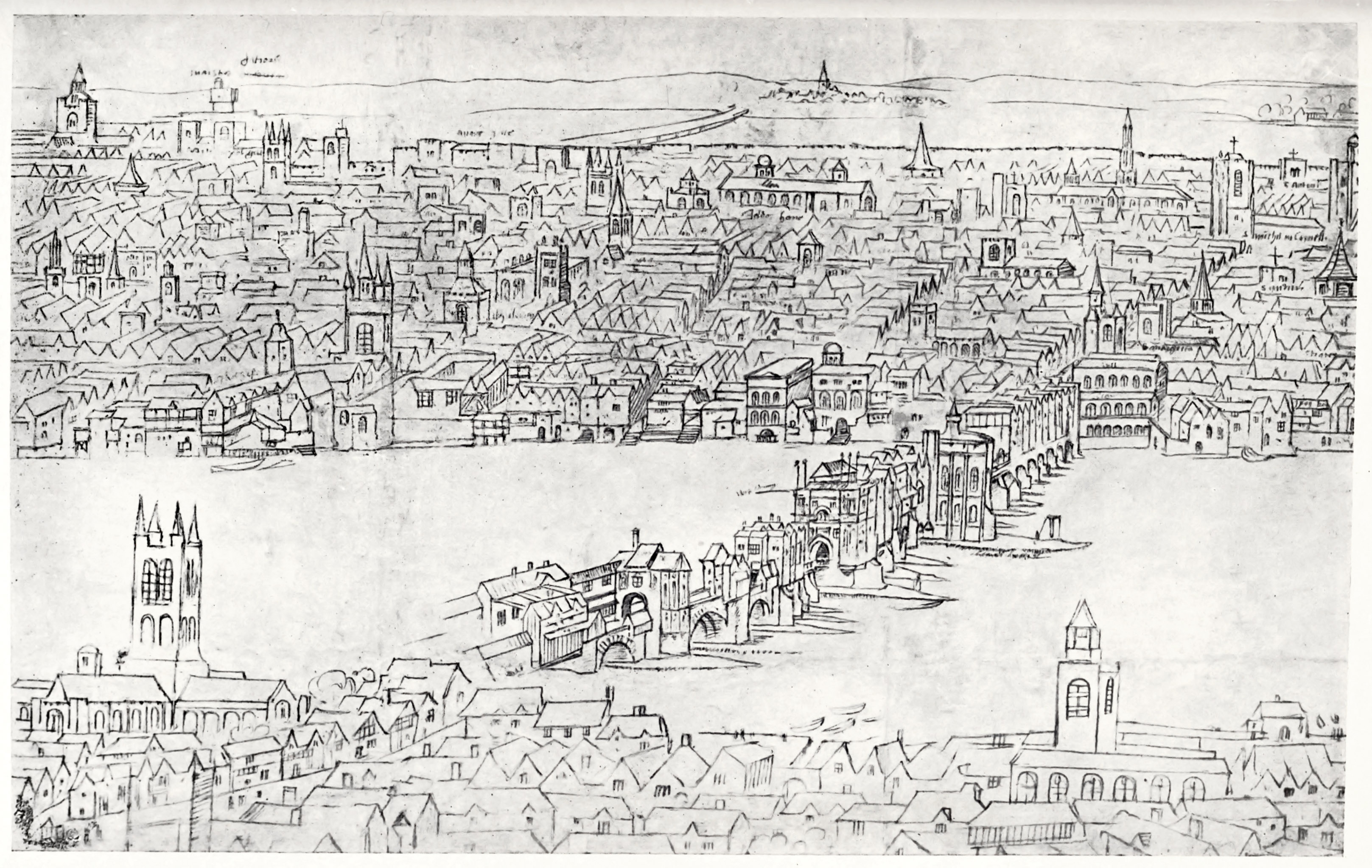 Drawing by Antony van den Wyngaerde View of London - London Bridge